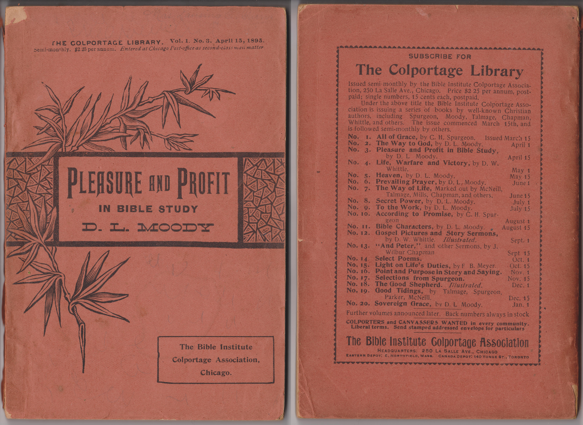 Colportage#Bible Institute Colportage AssociationChicago: Bible Institute Colportage Association, Vol.1 No.3, 1st Edition, 142 pp, concluding with 5 pp of ads. 16mo, 4 7-8 x 7 1-4 inches. Stapled (2) with orange-brown wrapper.